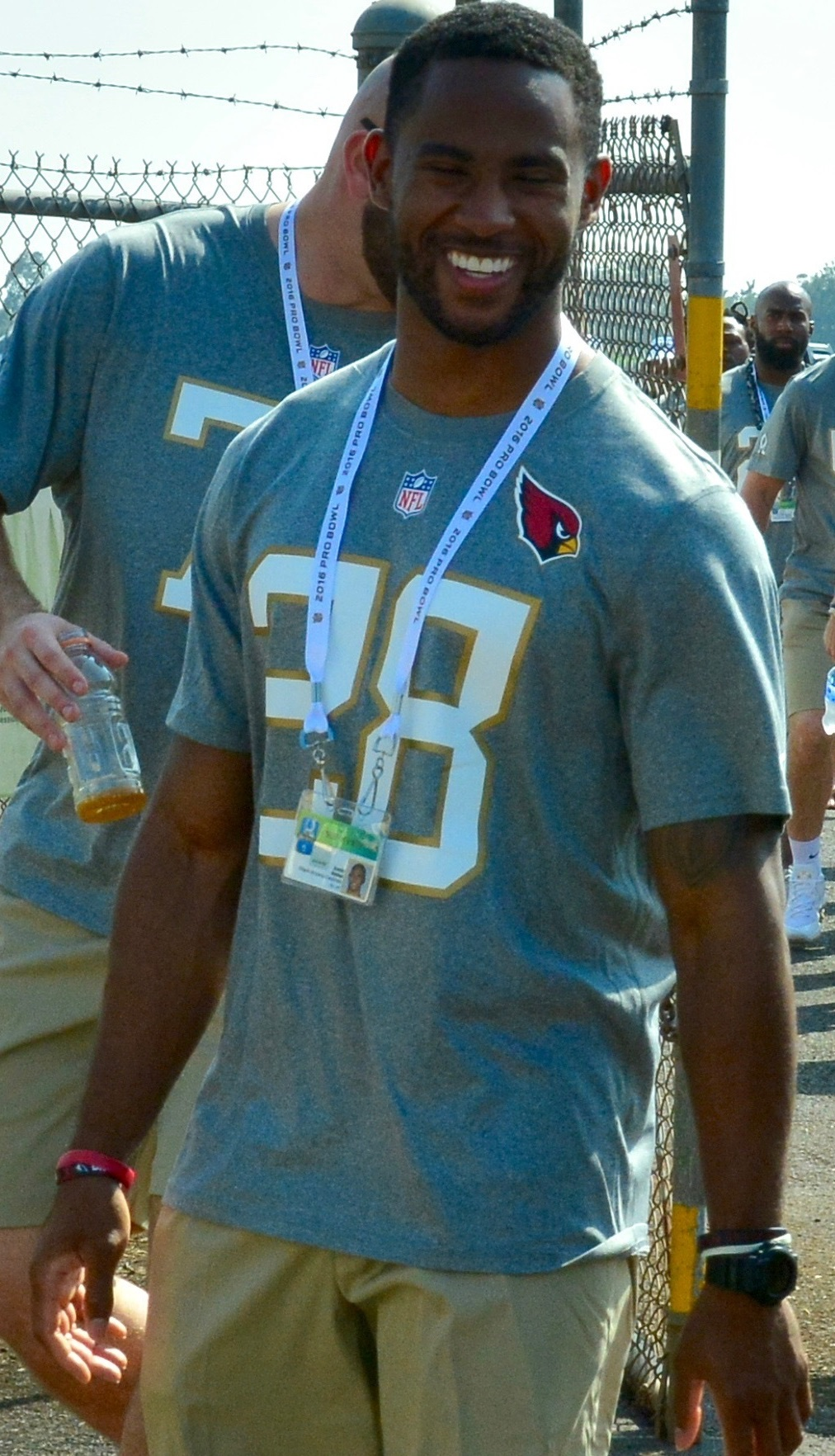 Justin Bethel enters the 2016 Pro Bowl Draft show at Wheeler Army Airfield, Hawaii, Jan. 27.